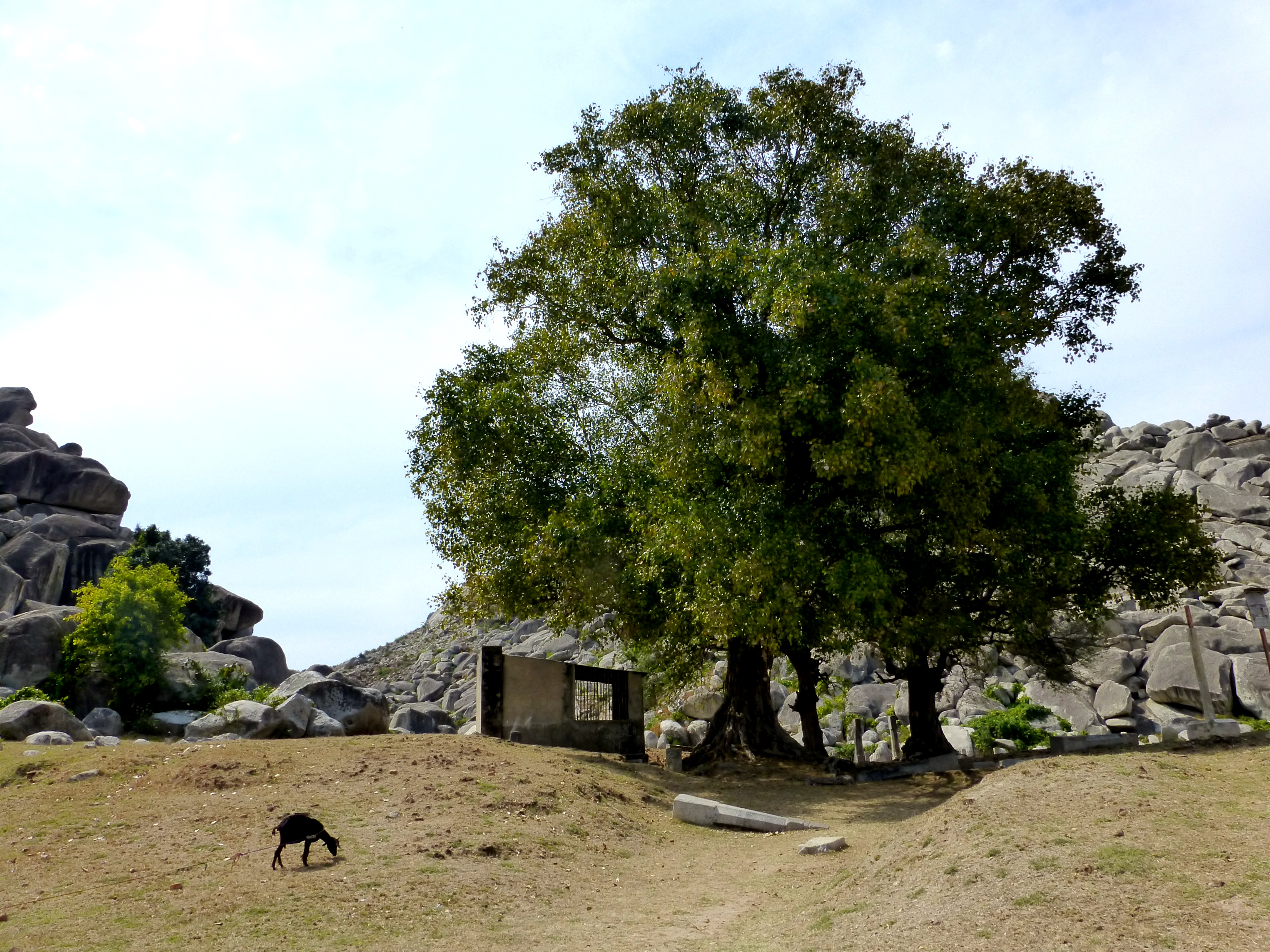 067 Shrine near Tree at Barabar, Bihar Photograph from the Barabar Caves in Bihar taken by Anandajoti.